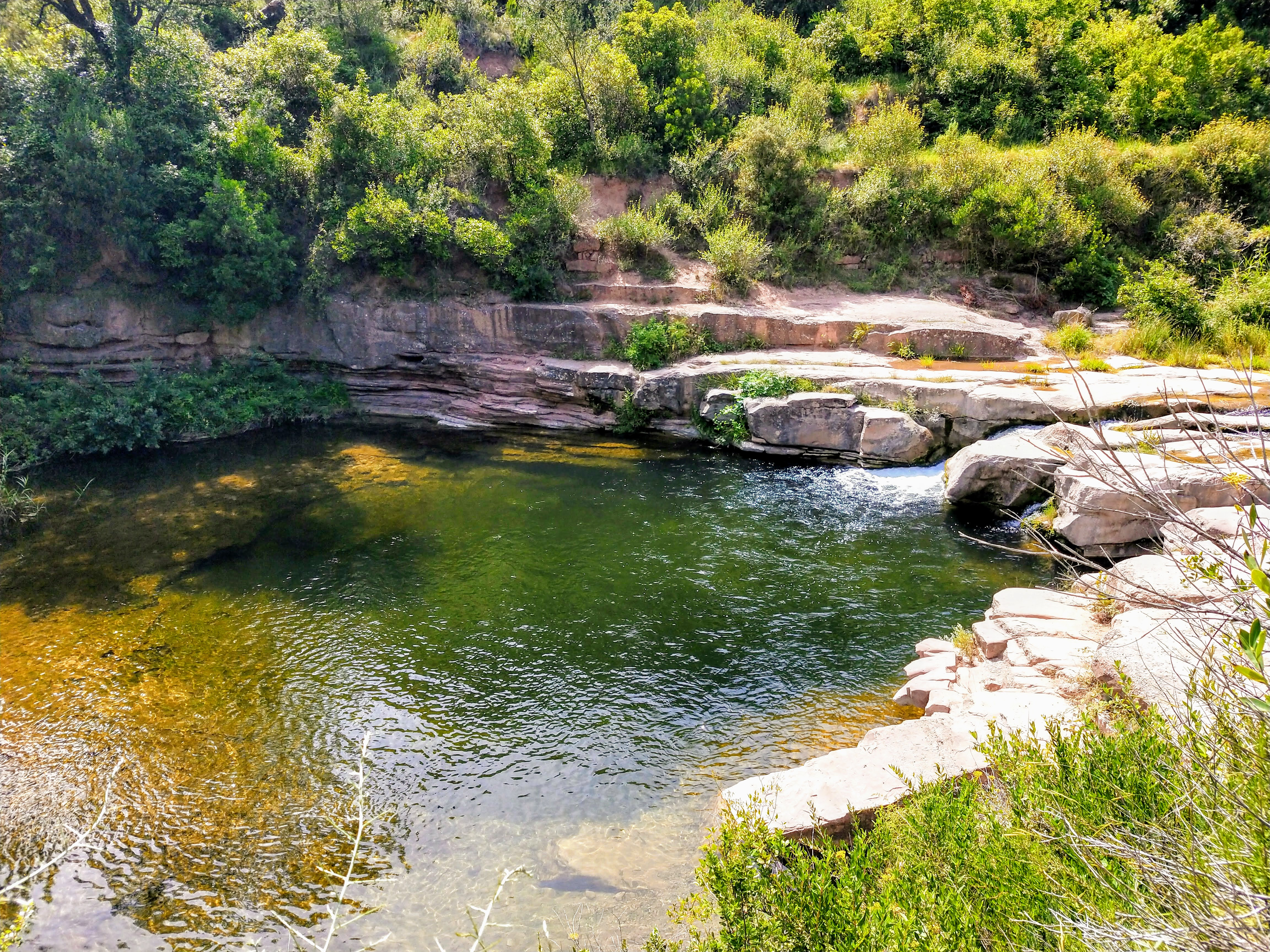 Primera poza de las tres balsas de Castellbell